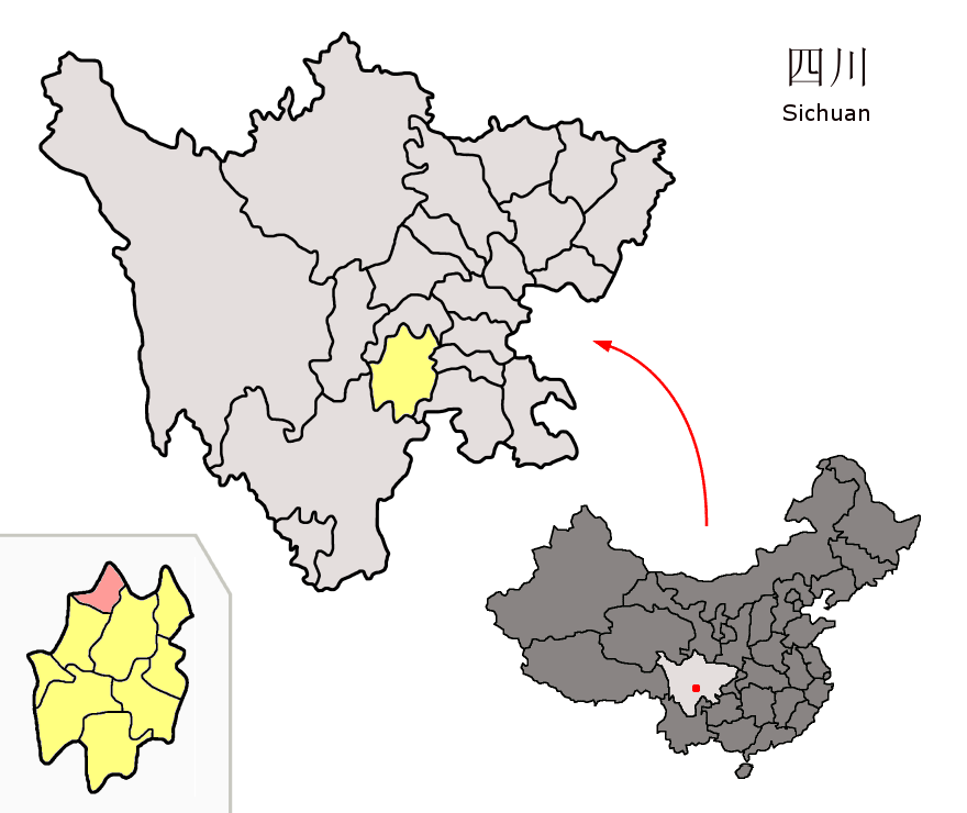 Location of Jiajiang County (pink) and Leshan Prefecture (yellow) within Sichuan province of China Map drawn in september 2007 using various sources, mainly : Sichuan province administrative regions GIS data: 1:1M, County level, 1990 Sichuan Counties map from Map of Yunnan & Sichuan Area from